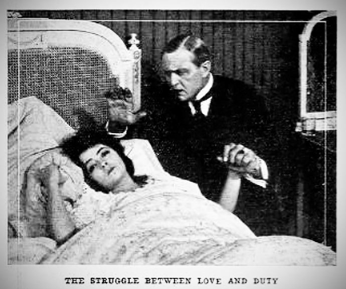 Scene from movie - Doctor Neighbor